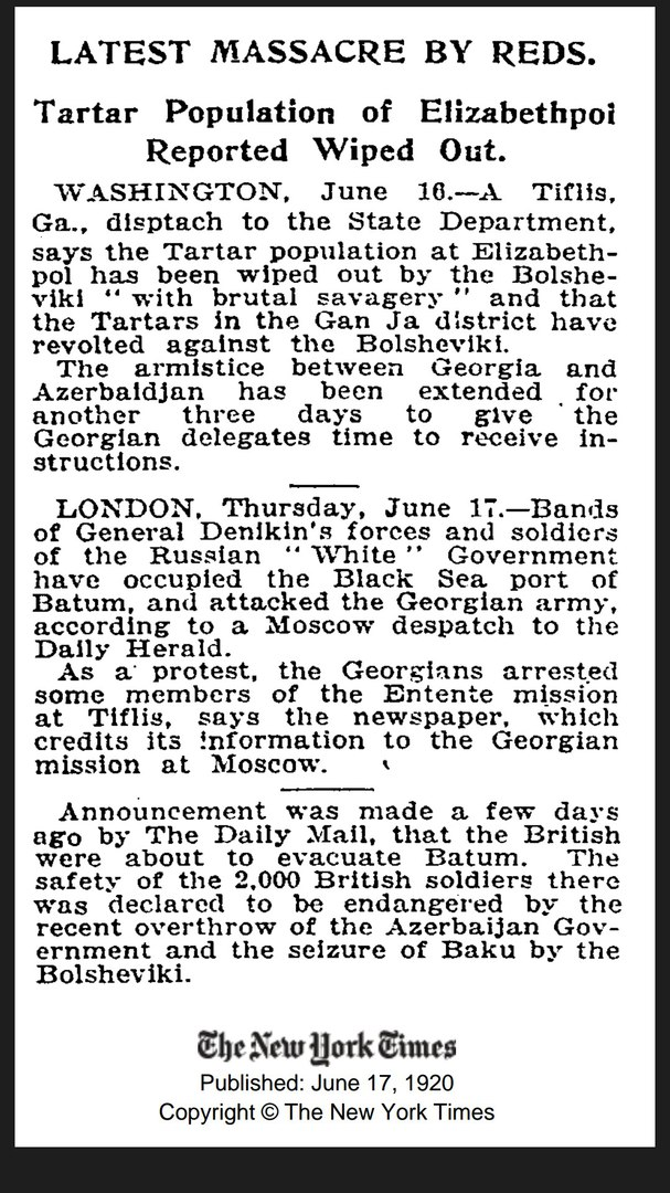 "Татарское население Елизаветполя было вырезано большевиками с брутальной дикостью"